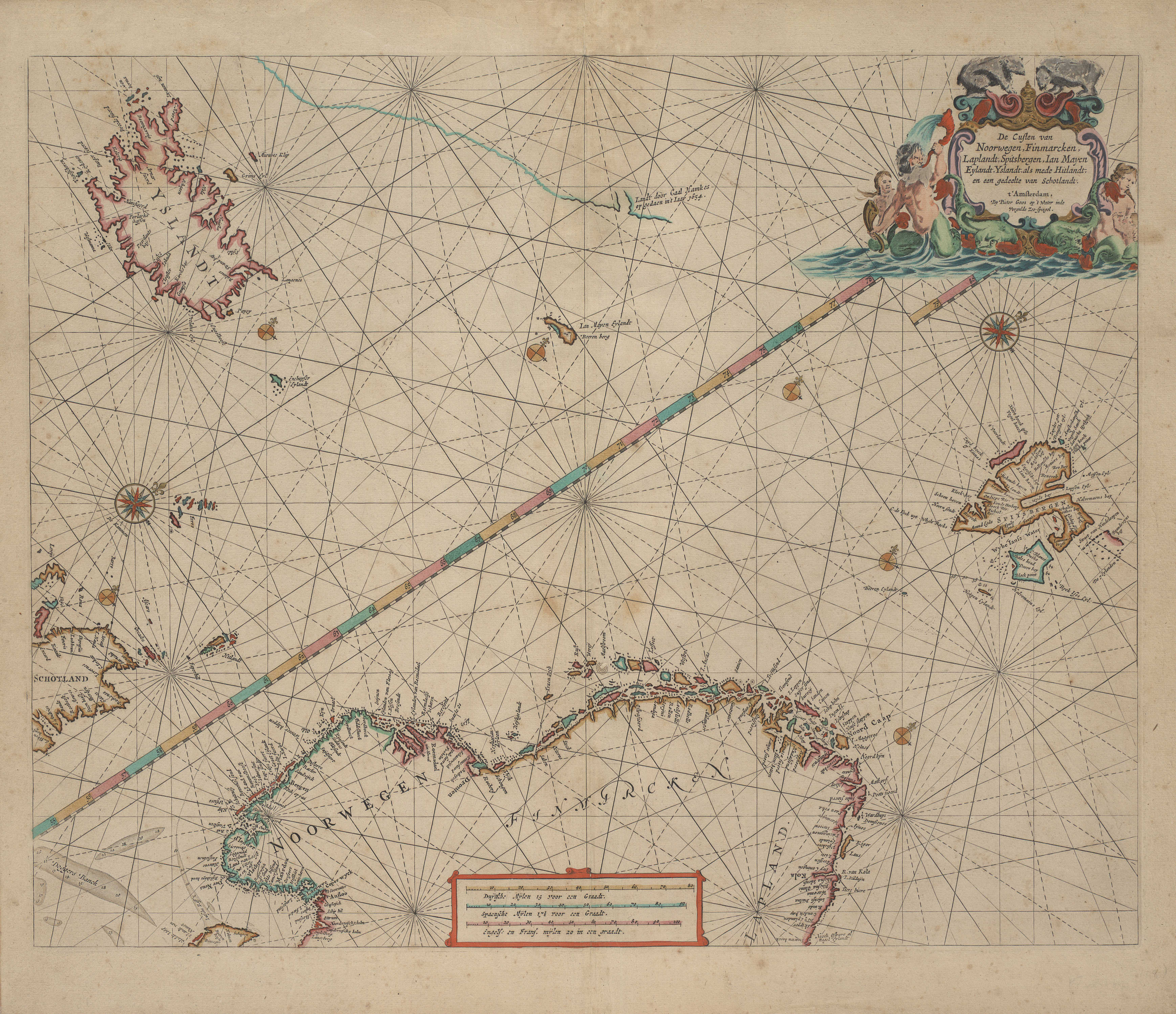 Map by Peter Goos, shows Norwegian Sea, North Sea and adjacent coasts